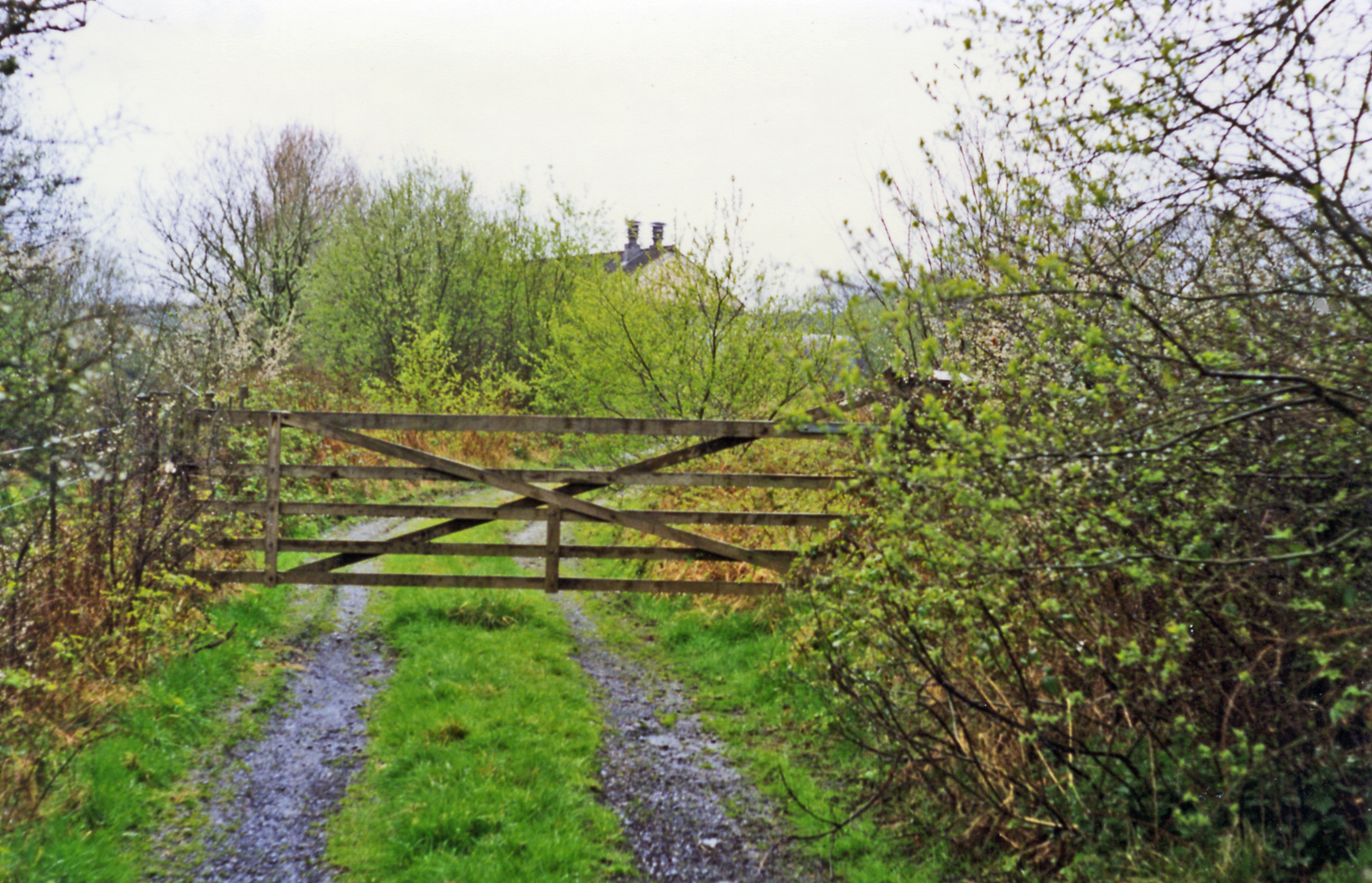 Site of Hole station. View westward, towards Halwill Junction: ex-SR Torrington - Halwill Junction (North Devon & Cornwall Junction Light Railway) branch. This line had a very short life, having been built only in July 1925 and was closed 1/3/65. Over the trees is the roof of the former goods shed (now part of a neighboring farm). Hidden behind the trees is the former station building. It was derelict for many years (part of the Hole Farm estate) until converted into a private home in the late 1990's.